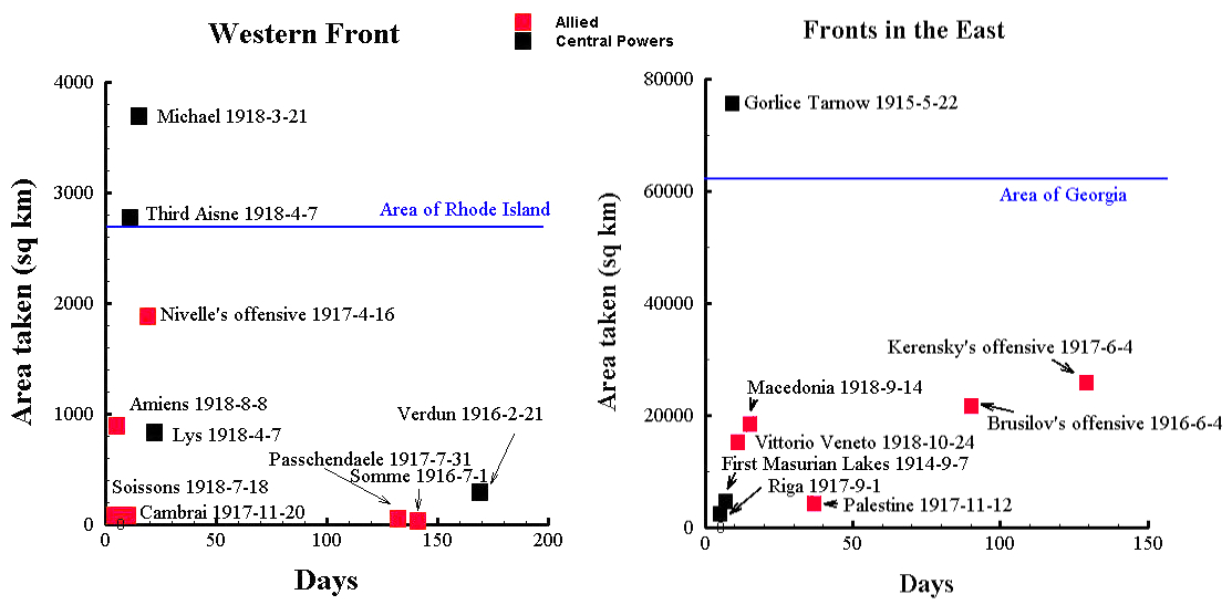 Plots of areas of ground occupied by offensives as a function of the length of the offensive in days. One plot for western front and a second for eastern fronts.